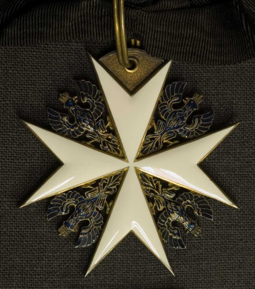 The Bailiwick of Brandenburg of the Chivalric Order of Saint John of the Hospital at Jerusalem (in German, the Balley Brandenburg des Ritterlichen Ordens Sankt Johannis vom Spital zu Jerusalem), or simply the Order of Saint John (Der Johanniterorden), is the German Protestant branch of the Knights Hospitaller, the oldest surviving chivalric order, which generally is considered to have been founded in Jerusalem in the year AD 1099. This is the cross for the Knight of Honour (Ehrenritter), the lowest rank in the order. From the collections of the Swedish Army Museum.